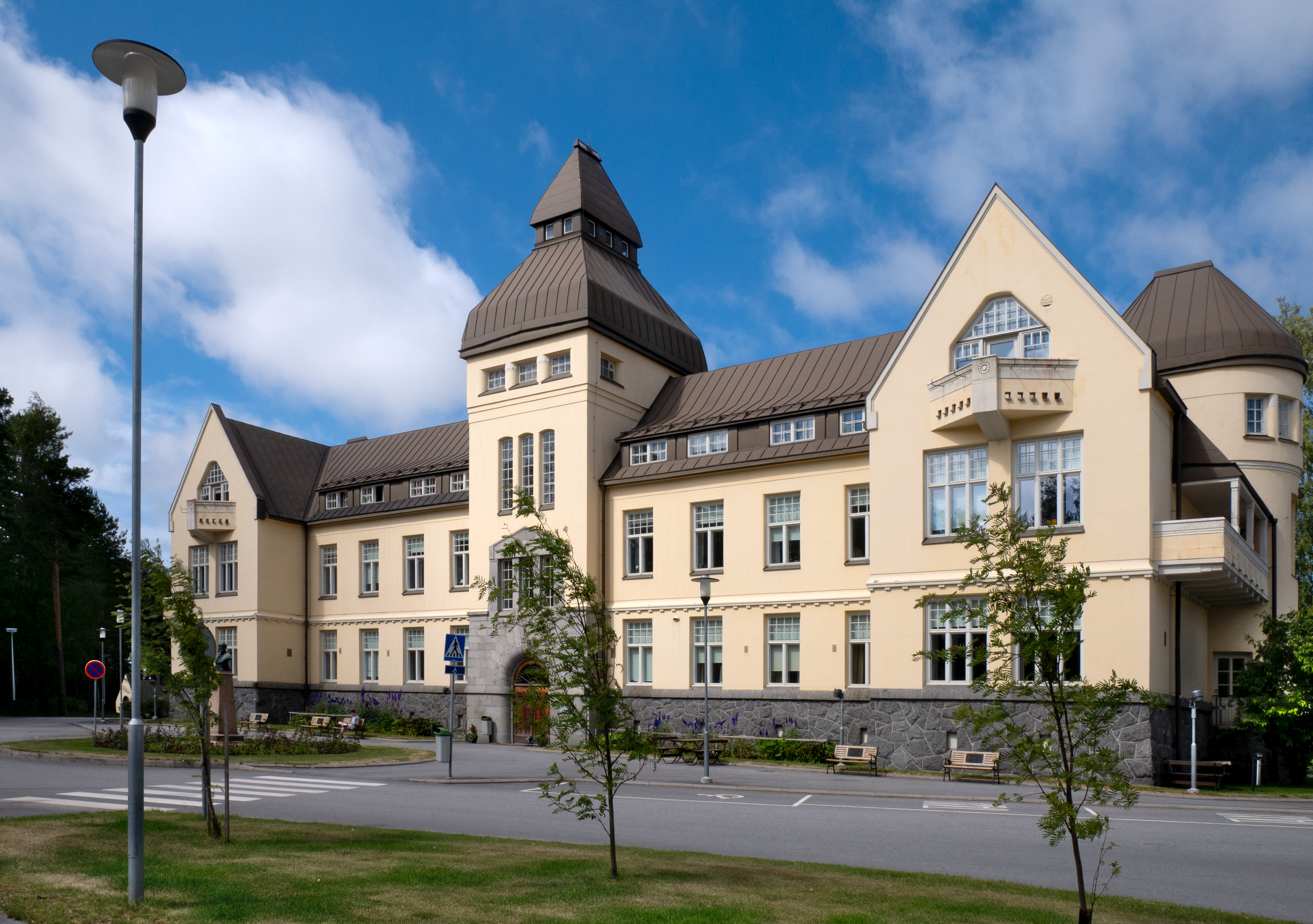 Hospital in Jakobstad, Finland.